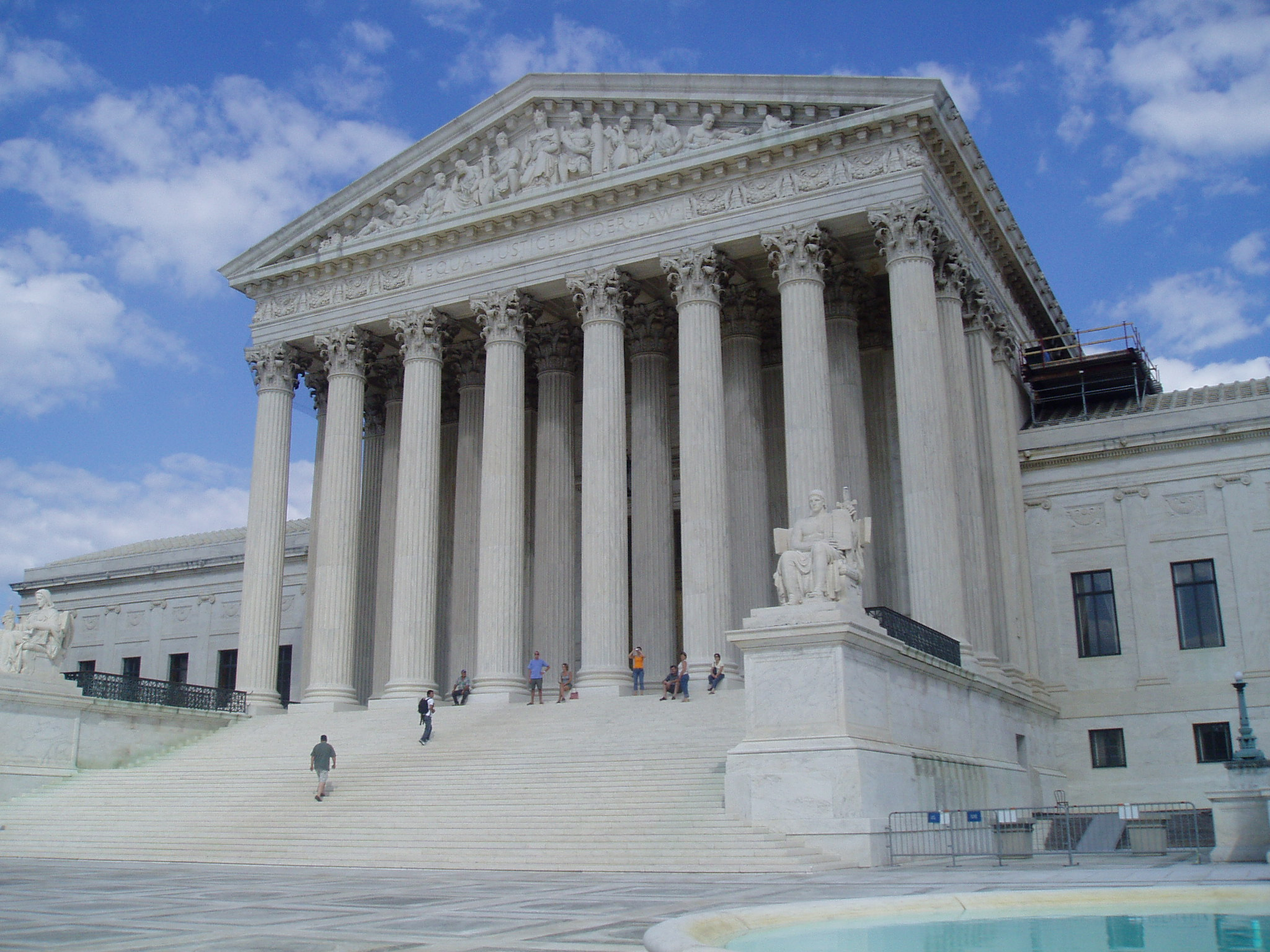 Looking northeast at the United States Supreme Court building in Washington D.C.